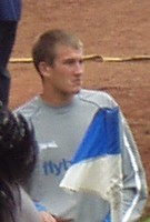 Adam Legzdins, then of Birmingham City F.C., warms up before the Championship game away against Cardiff City